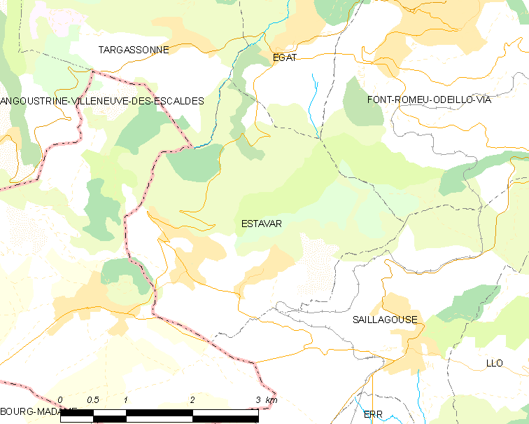 Map of French municipality